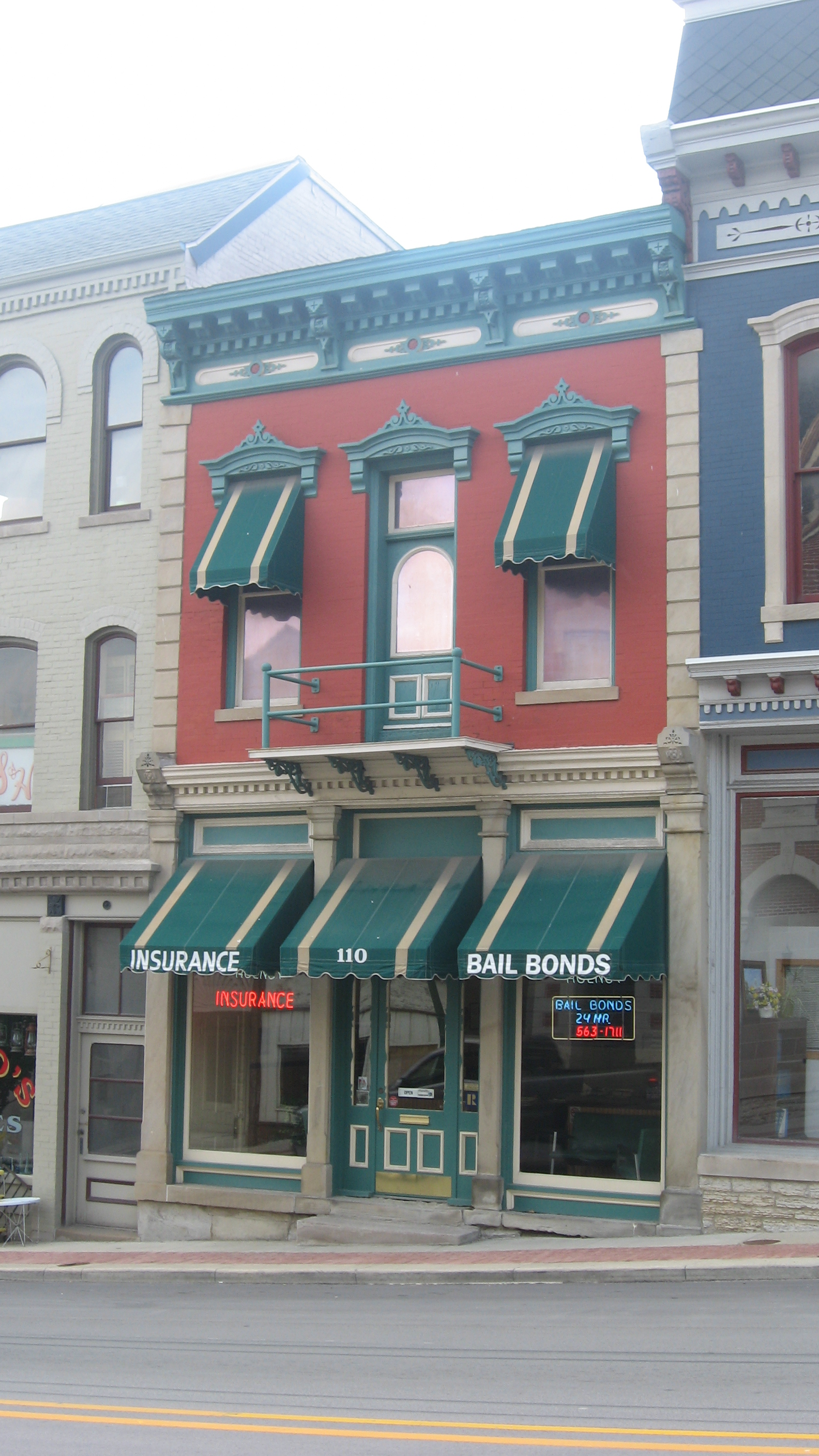 Front of the James M. Amoss Building, located at 110 S. Wabash Street (State Road 13) in Wabash, Indiana, United States. Built in 1880, it is listed on the National Register of Historic Places, and it is part of a Register-listed historic district, the Downtown Wabash Historic District.